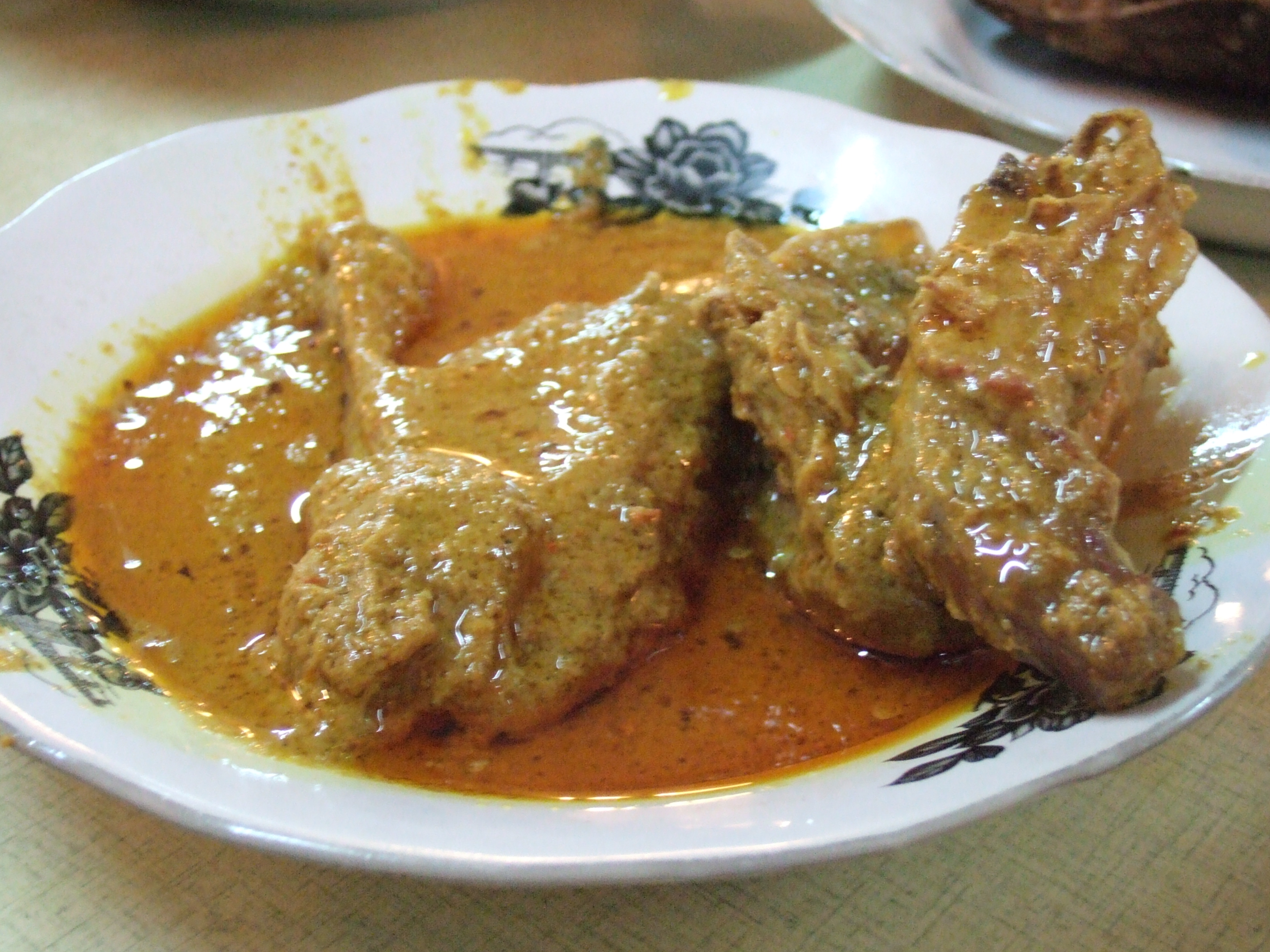 Chicken curry